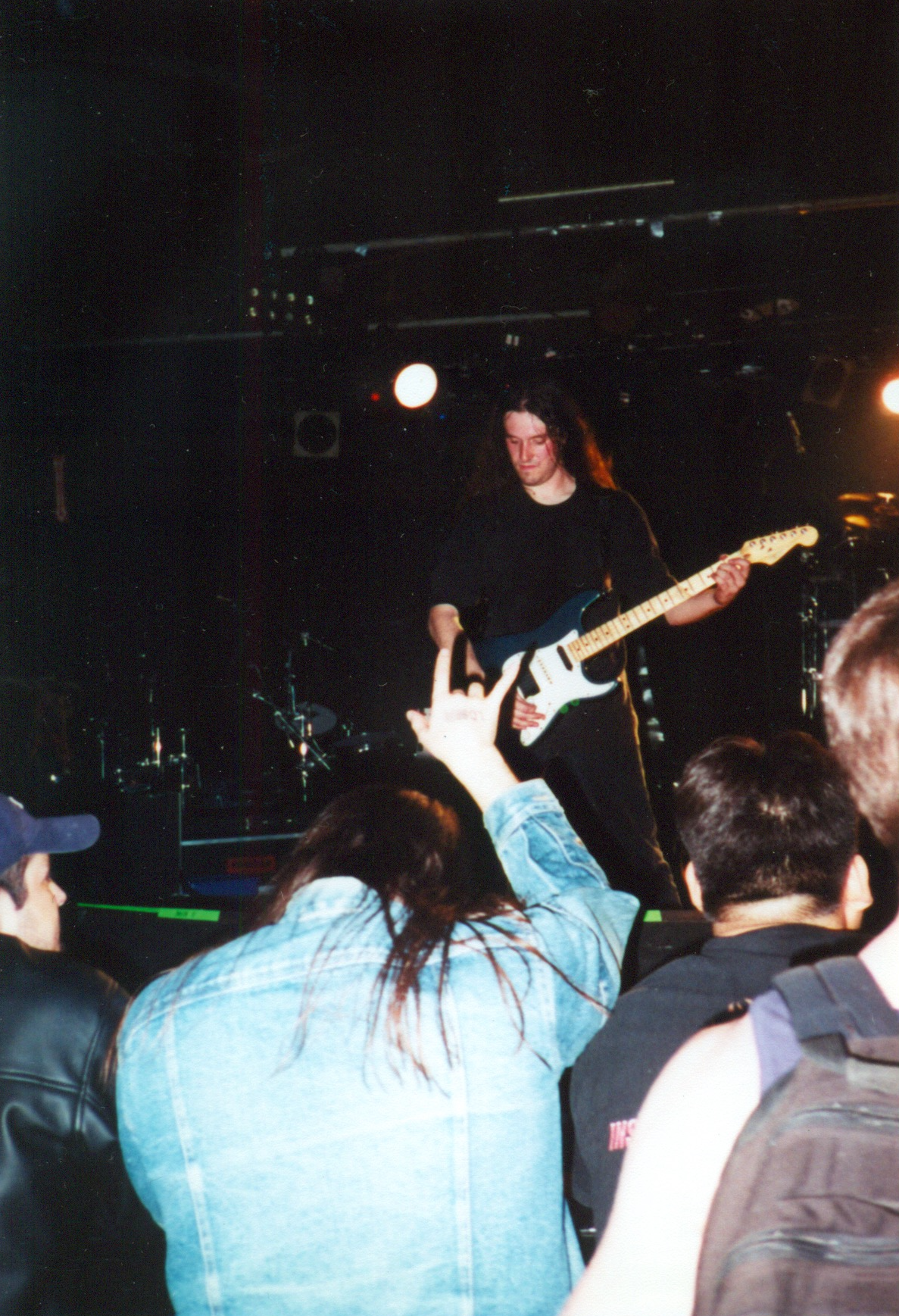 Live Photo of Jon Levasseur Former Guitar player of Cryptopsy performing in Austin Texas